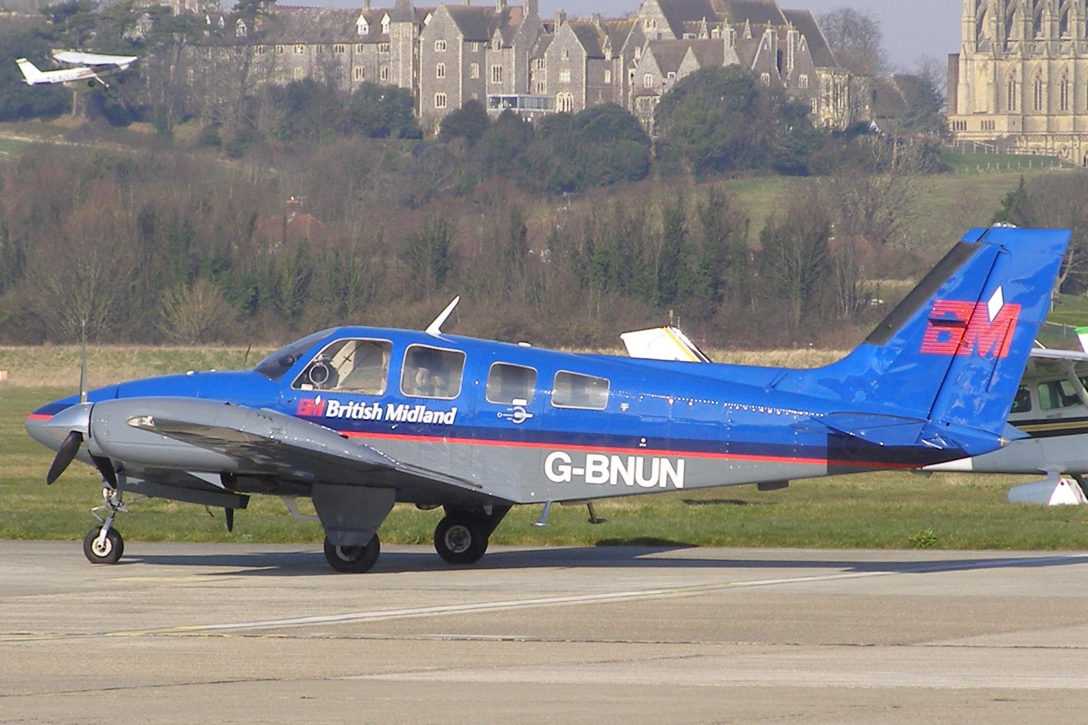 Beech Baron registered G-BNUN of BMI at Shoreham Airport England